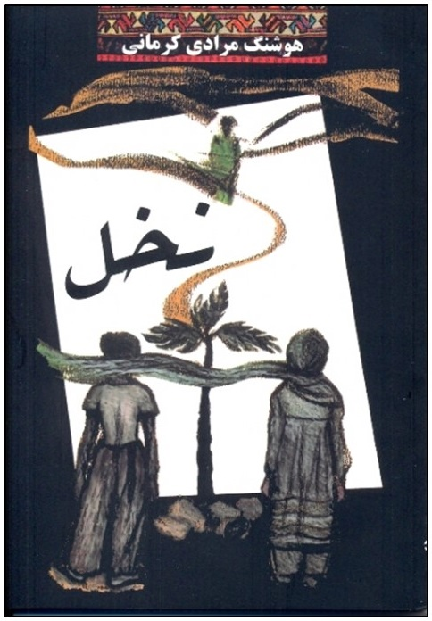 book cover